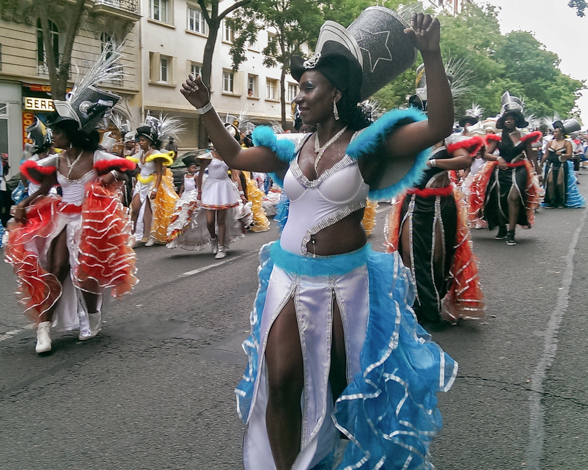 Tropical Carnival of Paris 2014 - Some members of Ethnick'97 band